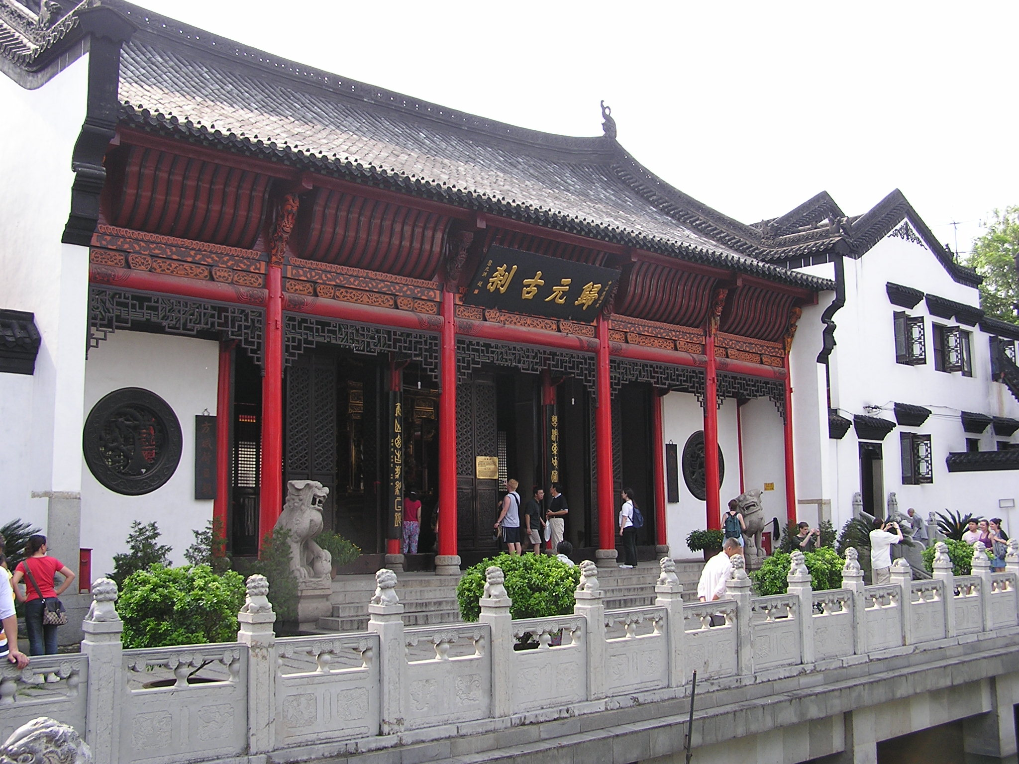 Bhuddist Guiyuan temple in Wuhan